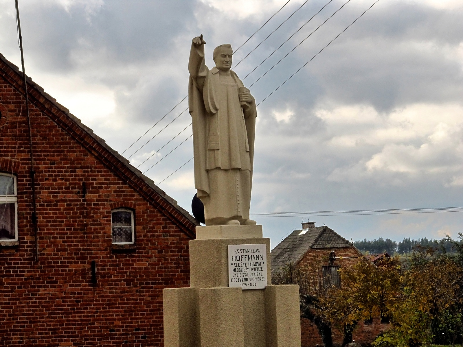 Figure Fr. Stanislaus Hoffman